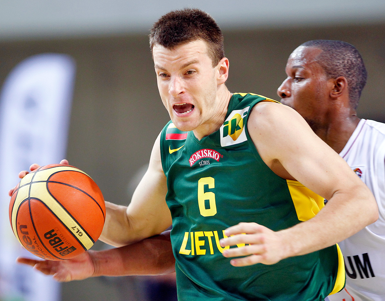 Lithuanian basketball player Adas Juskevicius